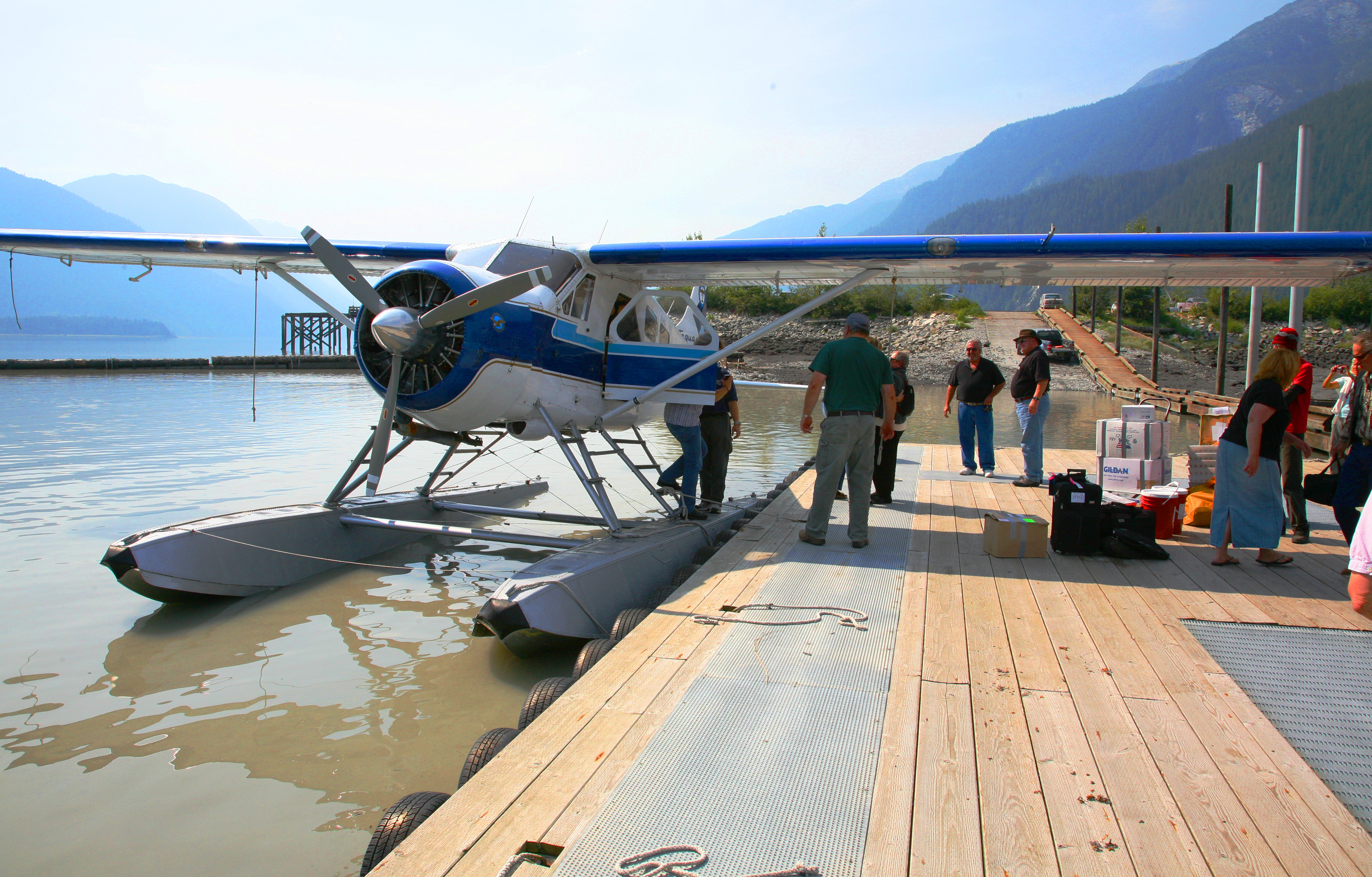 Airmail delivery into Hyder (Alaska) occurs arround mid-day every Monday. If there is not too much freight, there might be room for one or two passengers to or from Ketchikan The plane is a De Havilland Beaver DHC-2 with a Pratt & Whitney R-985 9-cylinder radial engine (aka Wasp Junior) of 985 cu in (16 litre) developing around 450HP. Both the plane and the engine are over half a century old - and still in daily service